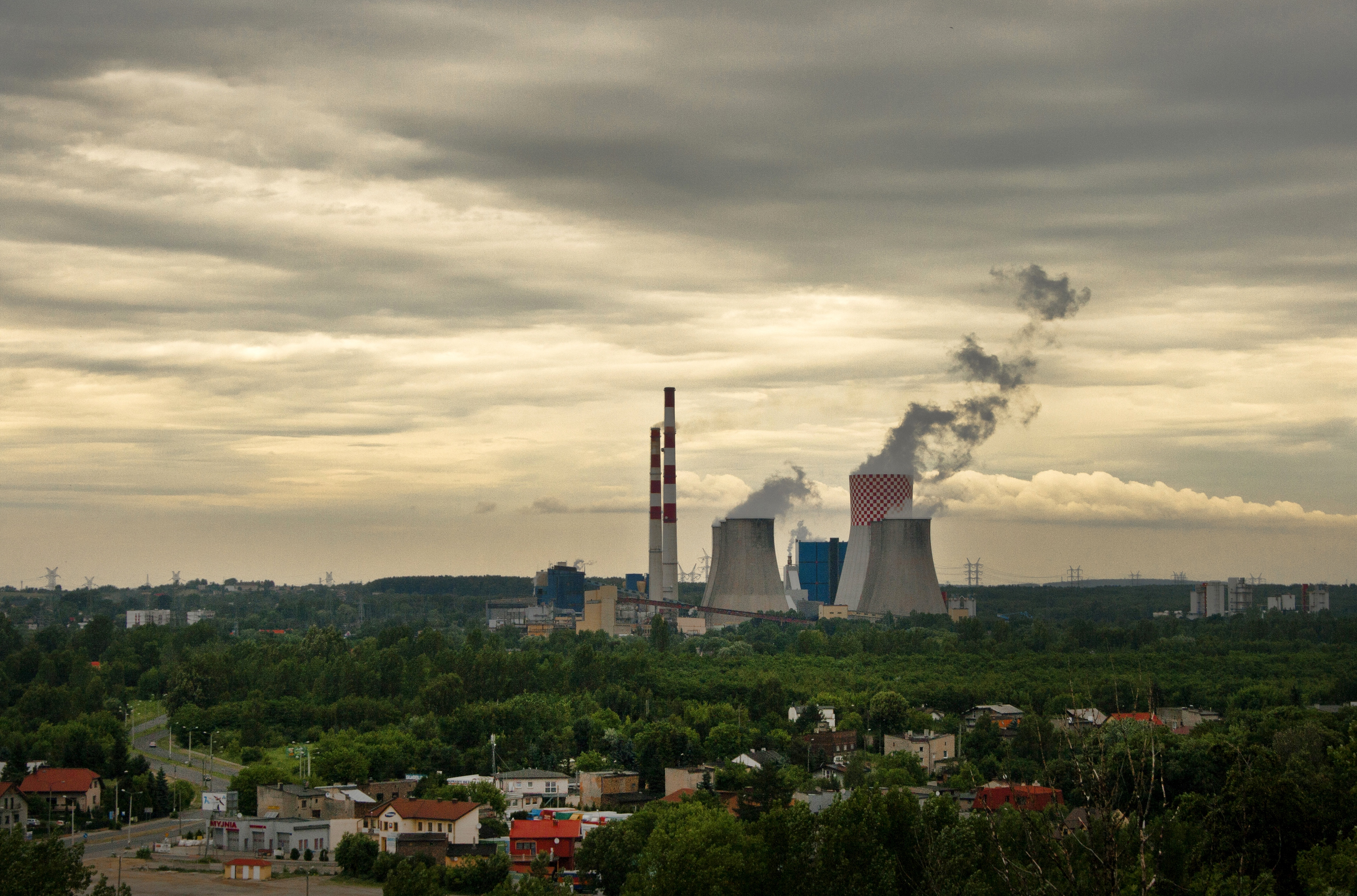 Industry in Będzin.